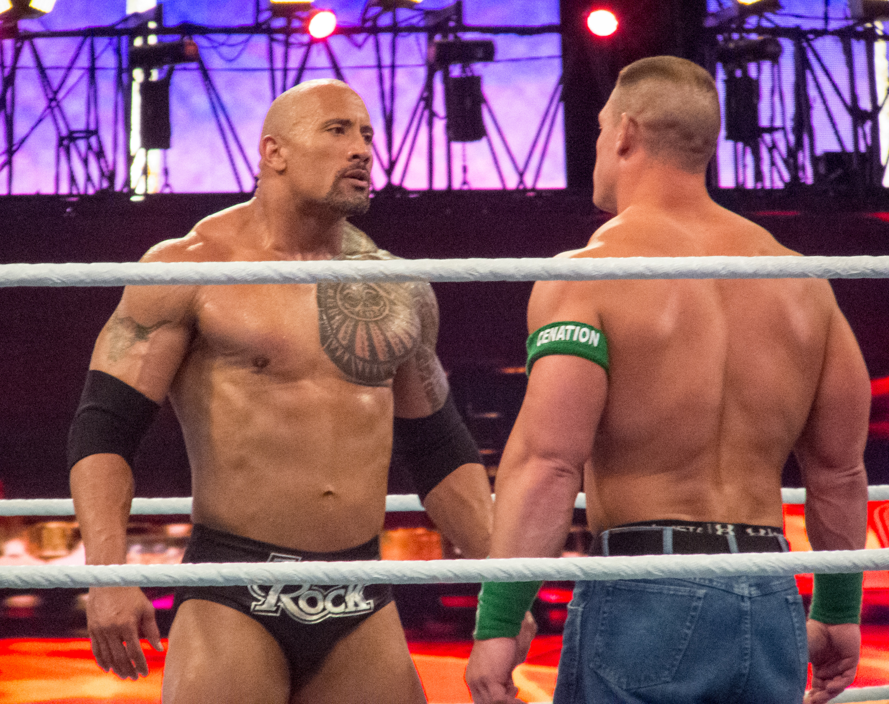 WWE Wrestlemania 28 - The Rock vs John Cena